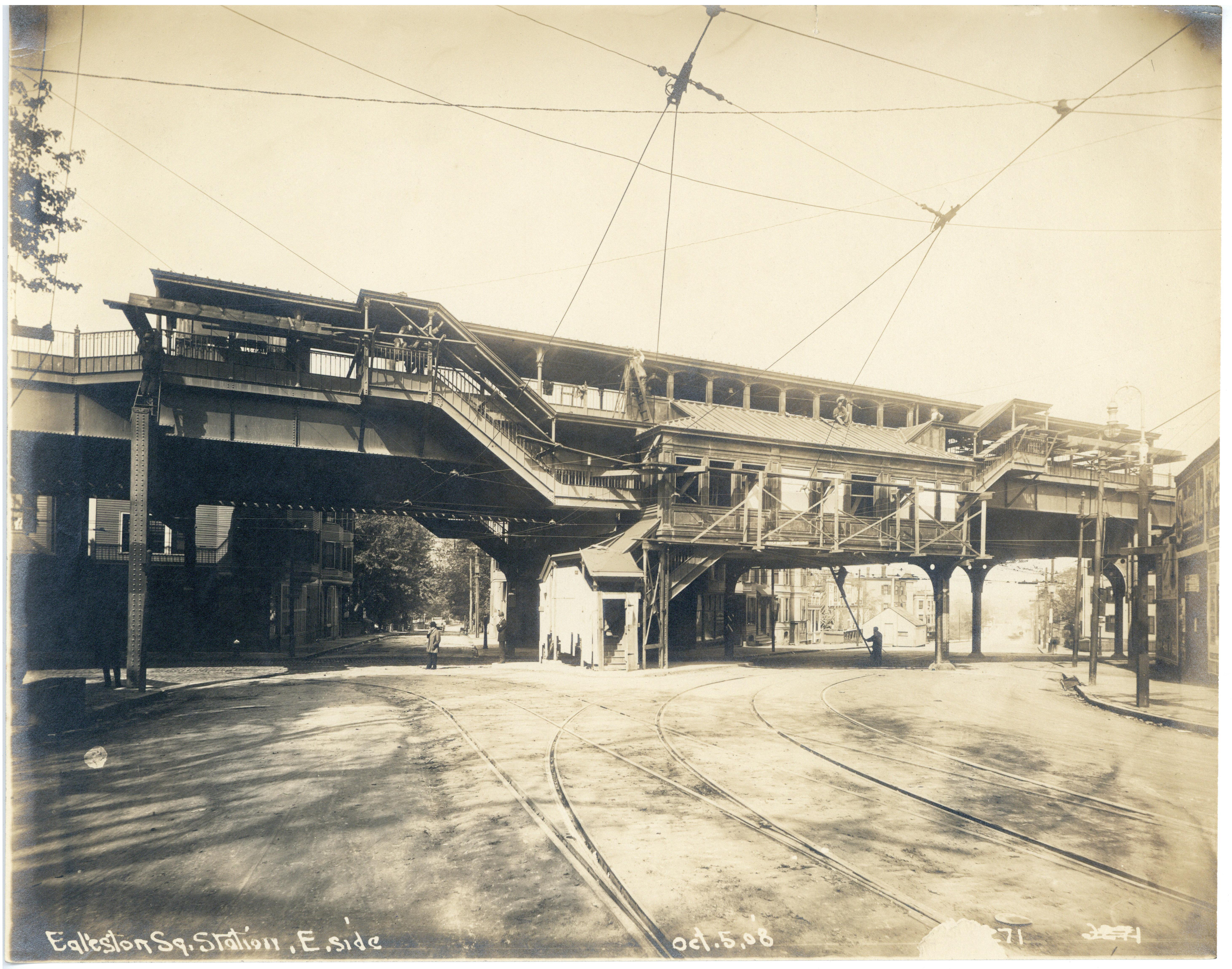 The east side of Egleston station in October 1908, prior to its opening.